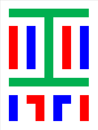 LELELE patterning consists of 3 instances of litho-etch (LE) to enable 3x the number of features within a single resolvable distance. For example, linewidths of 17-22 nm may be relevant here.